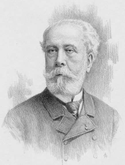 French composer Édouard Lalo (1823-1892). Drawing by Richard Paraire (1869-1935), published as a wood engraving in La Vie populaire on 22 January 1891.